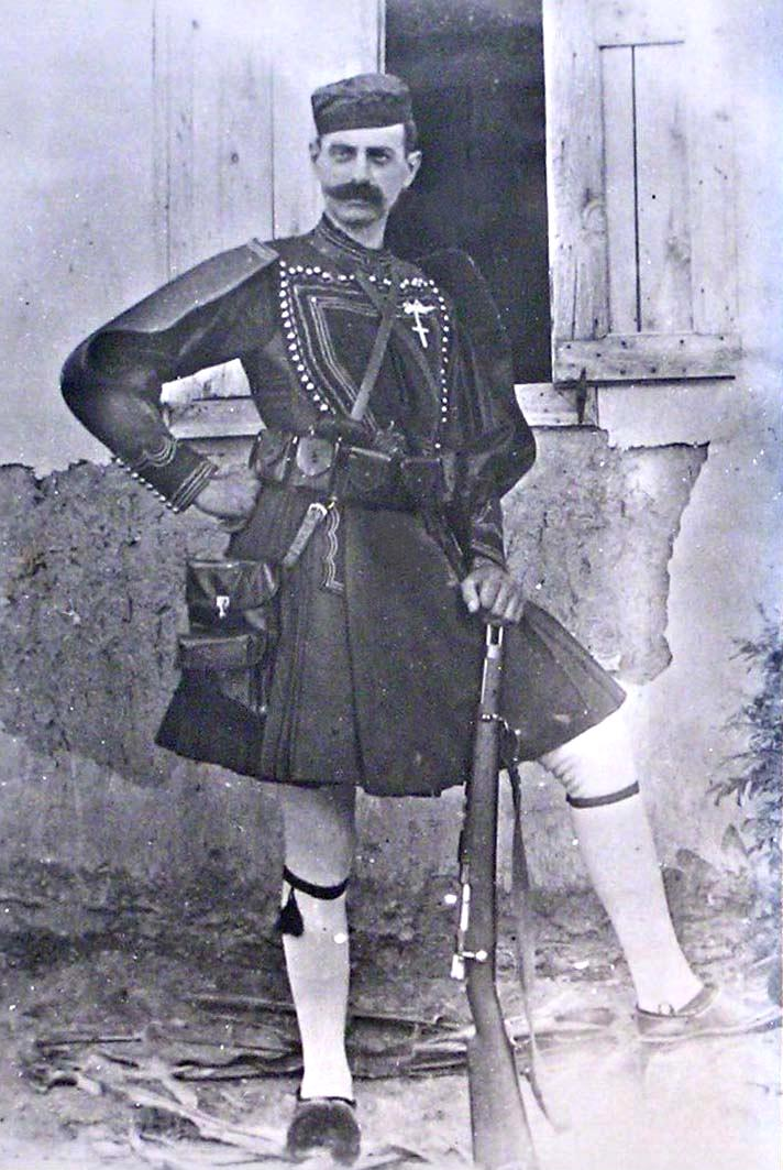 A photograph of Pavlos Melas wearing an emroidered black dolama, holding a Mauser rifle, with a Mauser zig-zag revolver in his belt, in Larisa. Photograph taken on the 21st of August 1904 in Larisa by Gerasimos Dafnopoulos at the behest of Melas's host in Larisa, fellow-officer Second Lieutenant Haralambos Loufas.